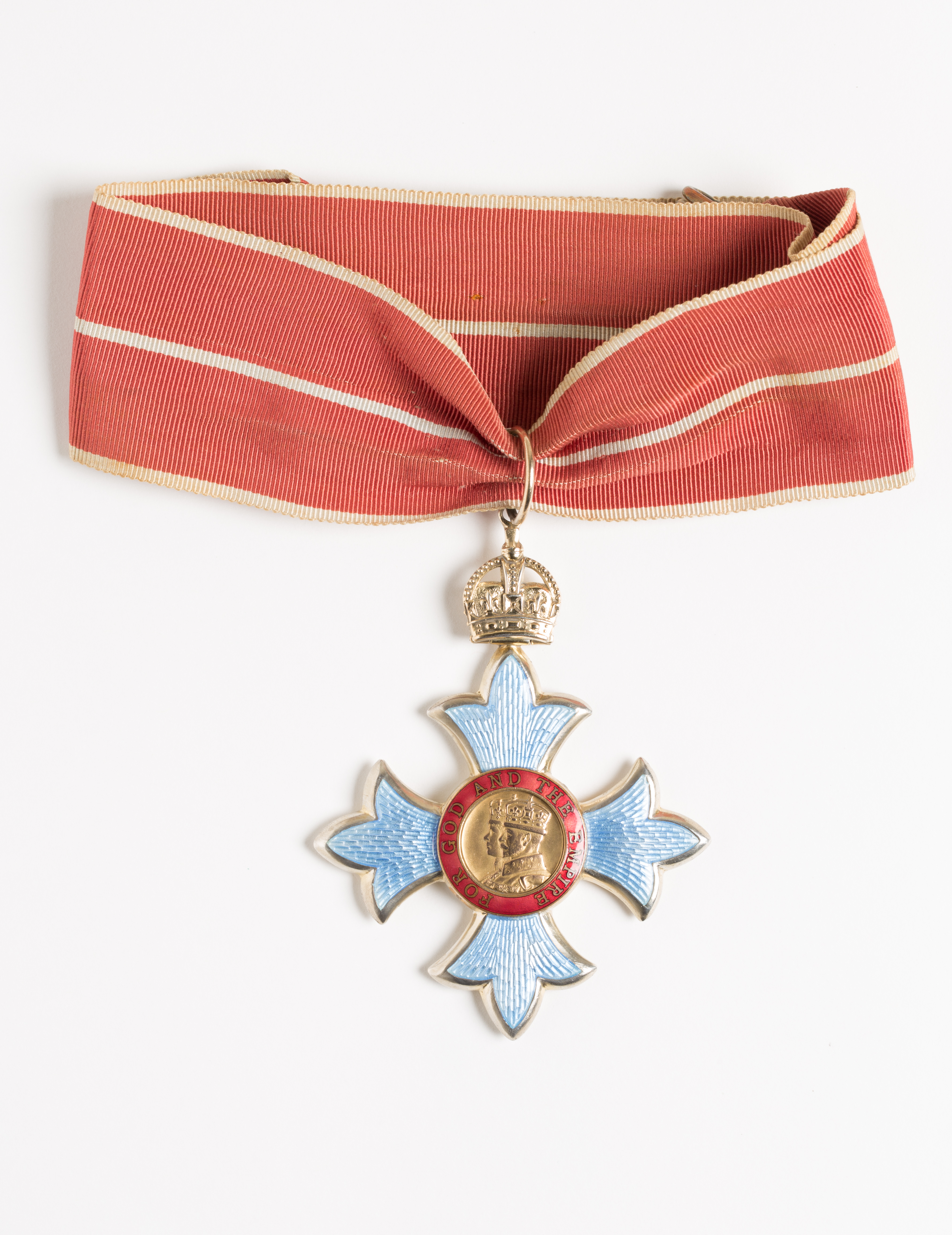 The Most Excellent Order of the British Empire - Commander (Mil) - CBE - neck badge GV1 Awarded to Brigadier Clive Lochiel Pleasants, CBE DSO MC metal and enamel cross shaped medal, 64mm wide, ring suspension, with ribbon obverse- pale blue enamelled cross with crimson ring with motto FOR GOD AND COUNTRY with George V and Queen Mary reverse- Royal Cypher ribbon- grosgrain ribbon, 44mm wide, crimson with white striped edges and white stripe down centre